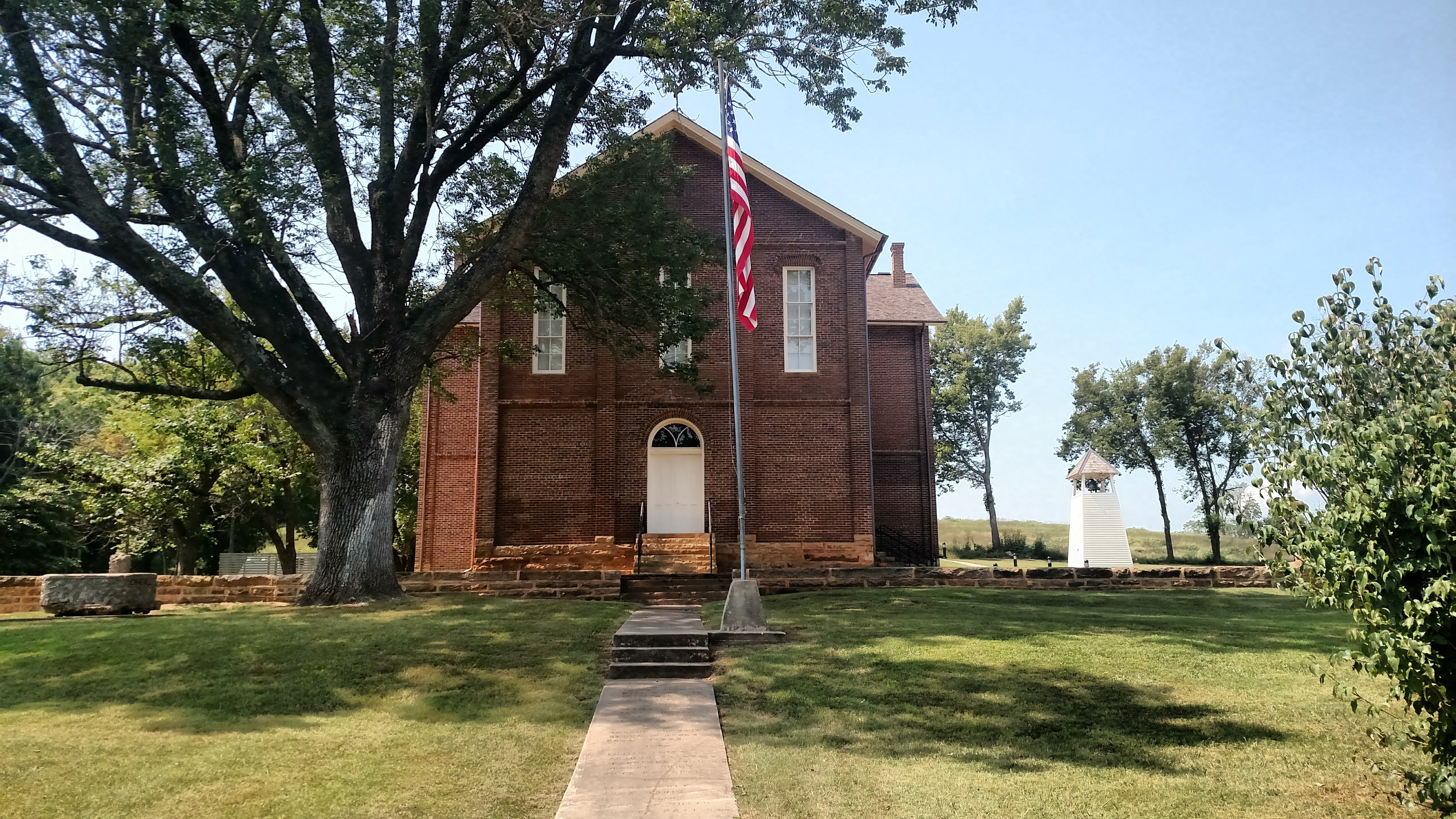 Campus of Cane Hill College in Canehill College